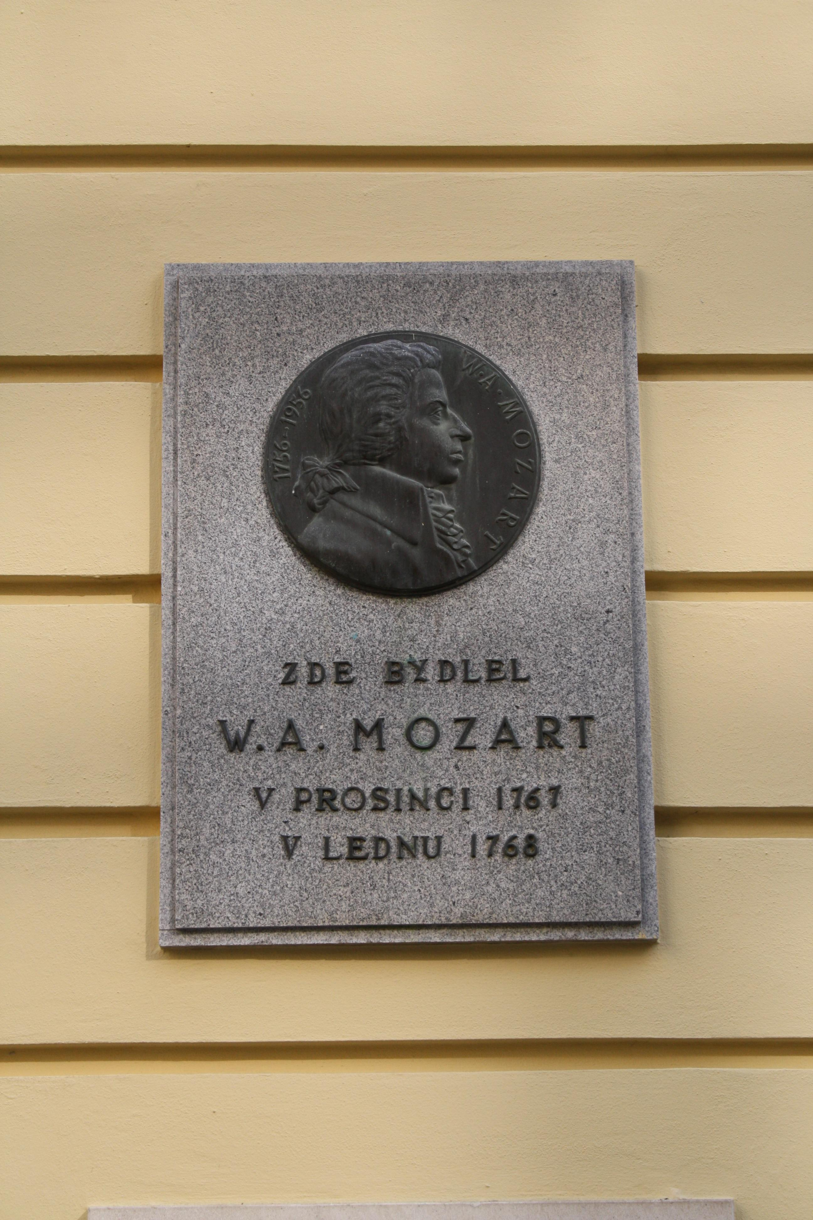 Plaque of W. A. Mozart residents in Brno.